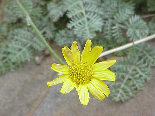 Species: 'Archanthemis marschalliana (syn. Anthemis marschalliana) Family: Asteraceae Image No. 1